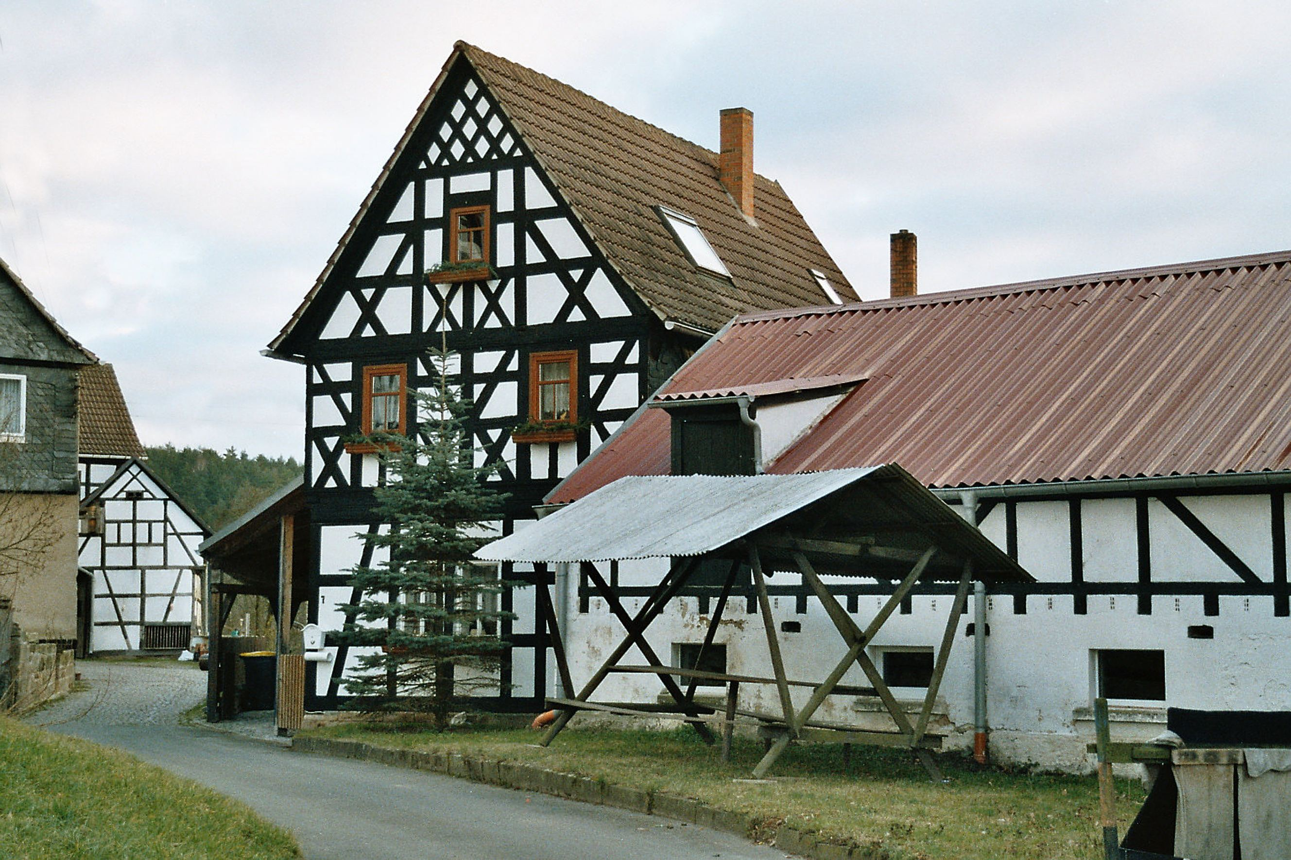 Framework in Möckern